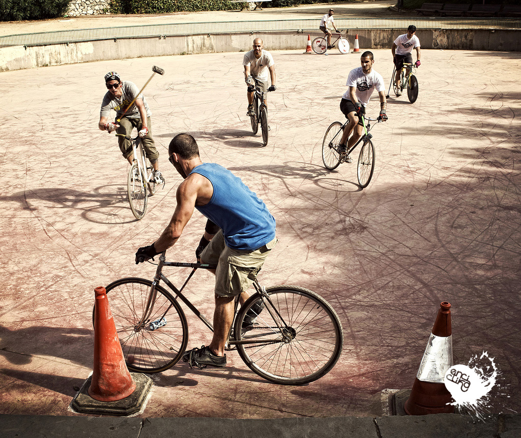 Bikepolo in Barcelona